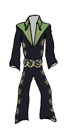 Cisco Kid (Elvis)